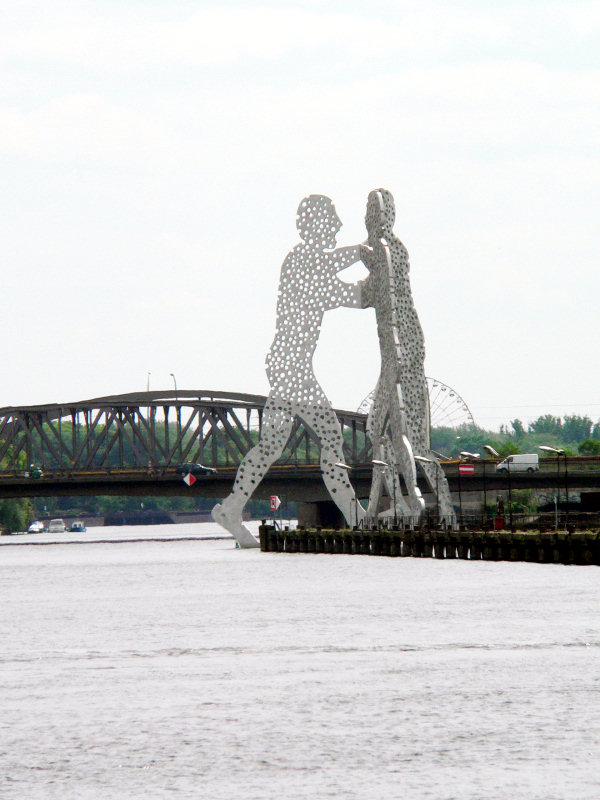 Jonathan Borofsky's sculpture "Molecule Man" in Berlin